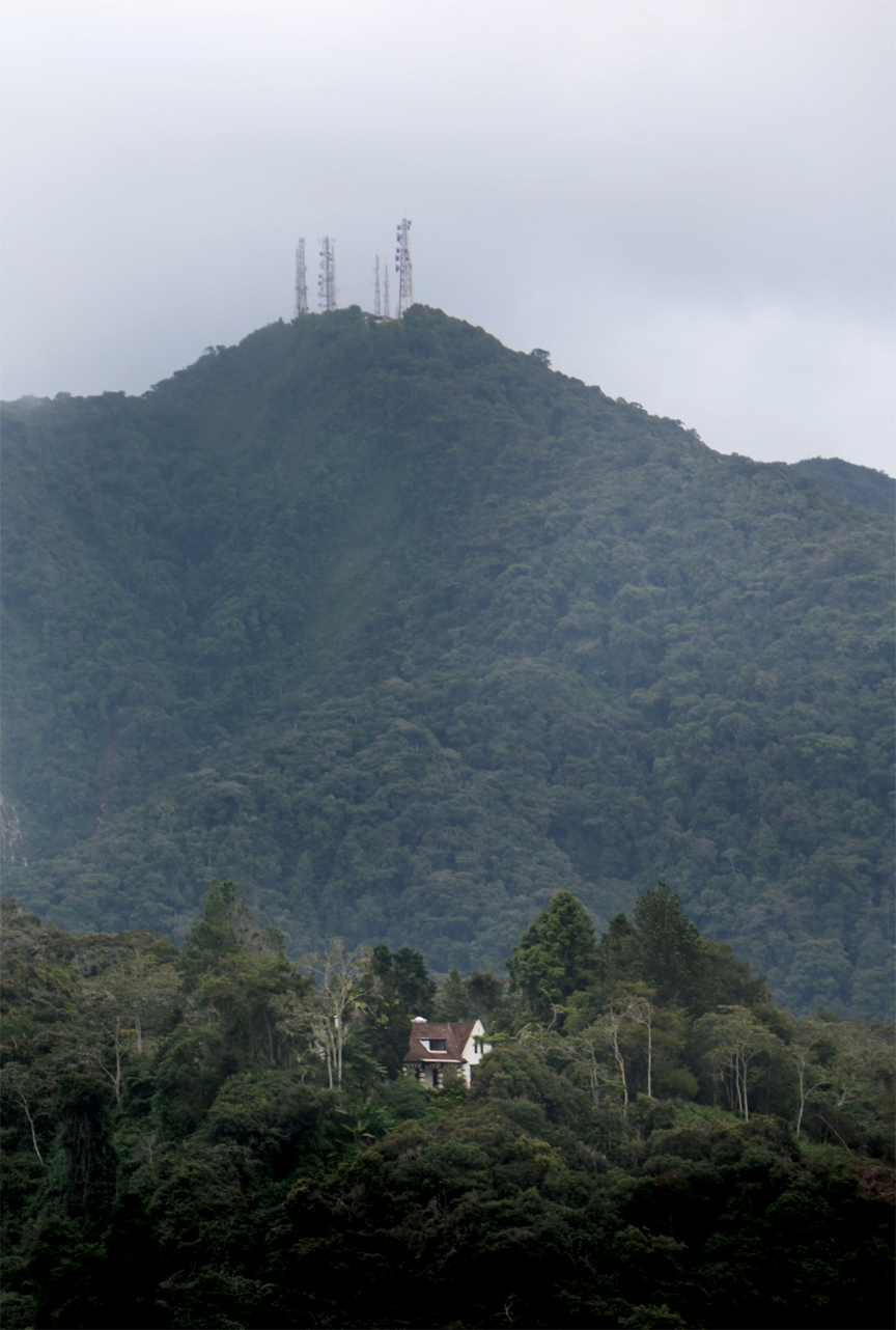 Mount (Gunung) Batu Brinchang, Cameron Highlands, Pahang, West Malaysia. Author: See Kok Shan